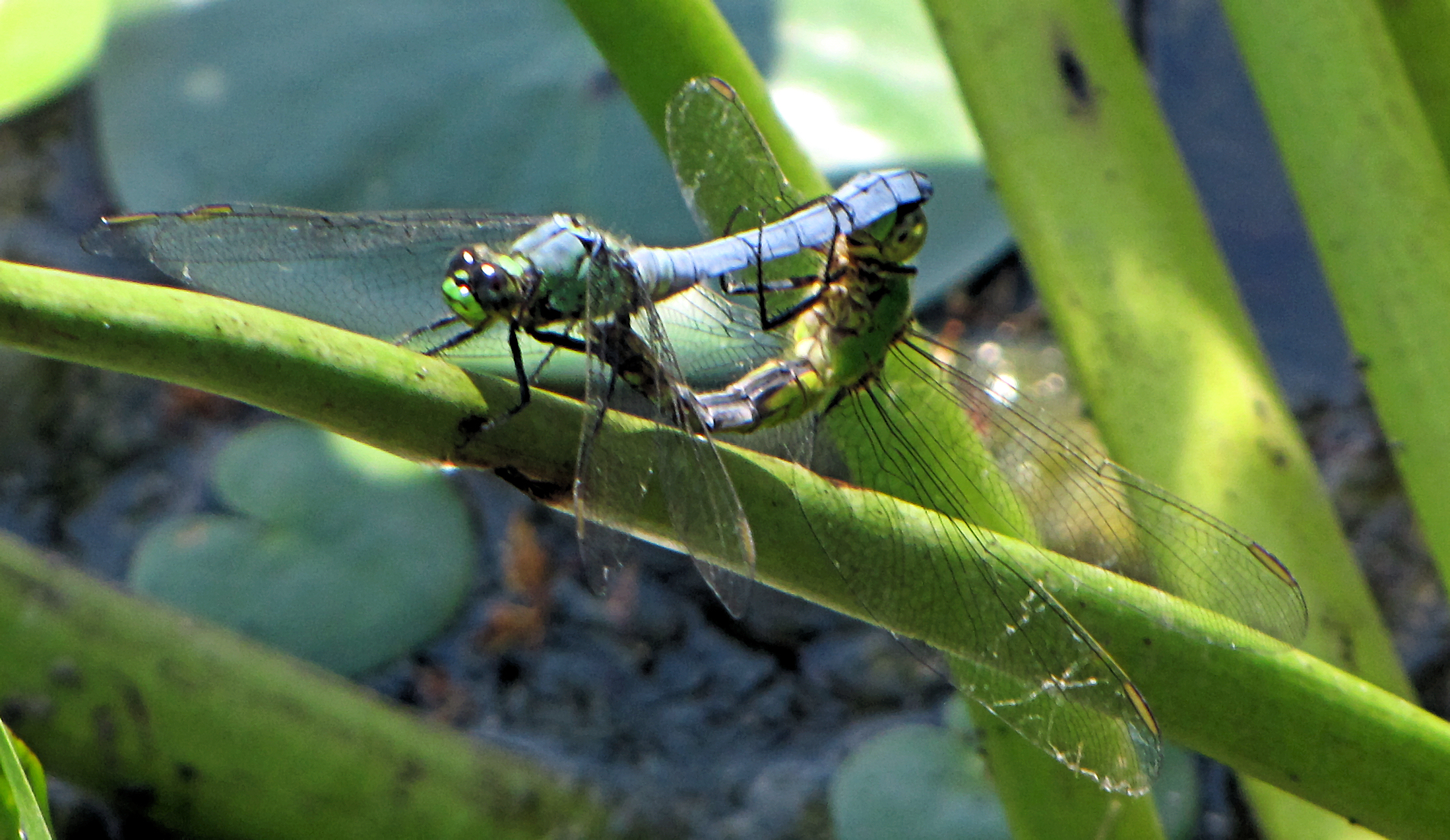 Eastern Pondhawks (Erythemis simplicicollis), in 'wheel posistion', male clasping female's head, Gatineau River, Gatineau, Quebec